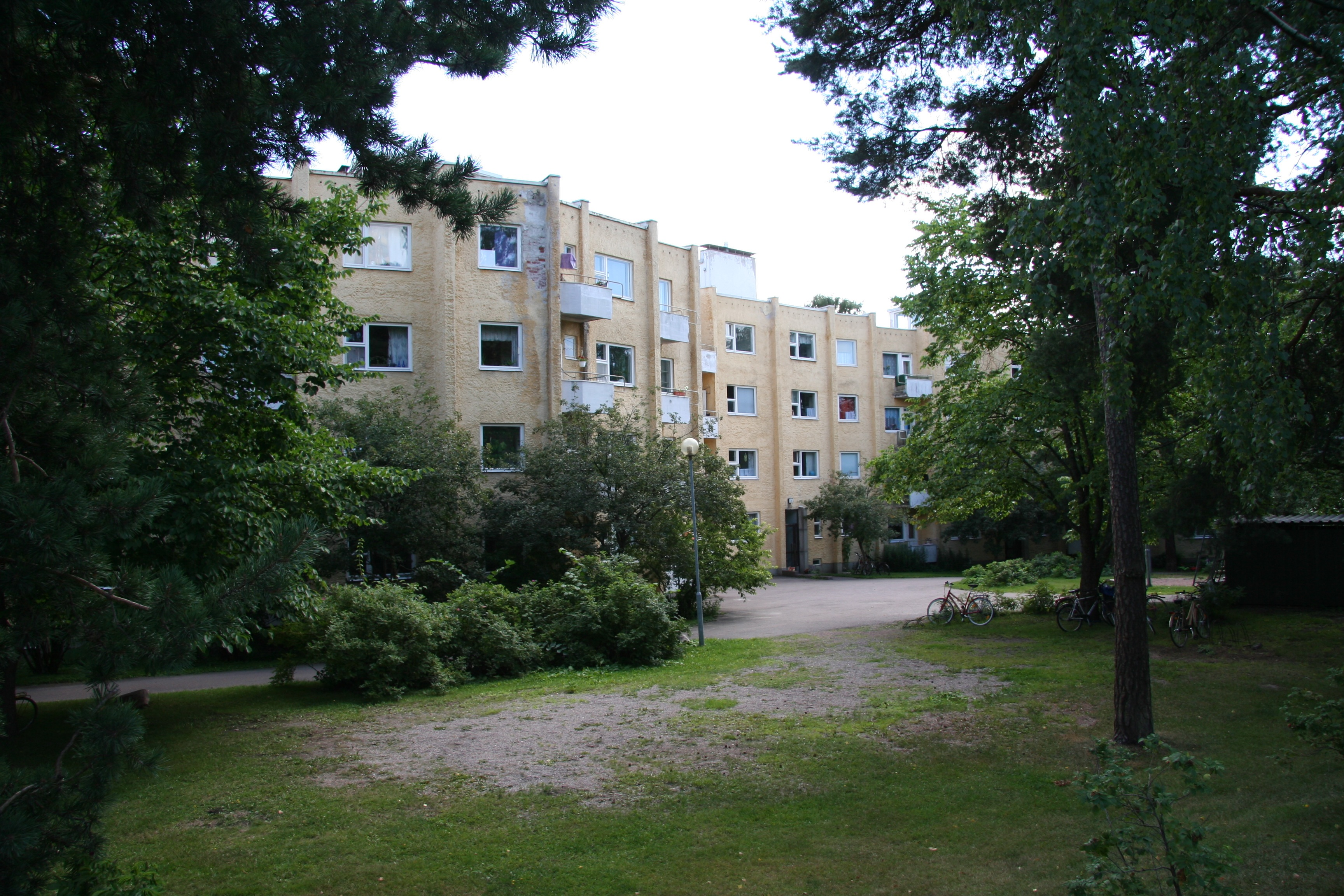 A residential house in Helsinki. Architect Yrjö Lindegren, 1951.